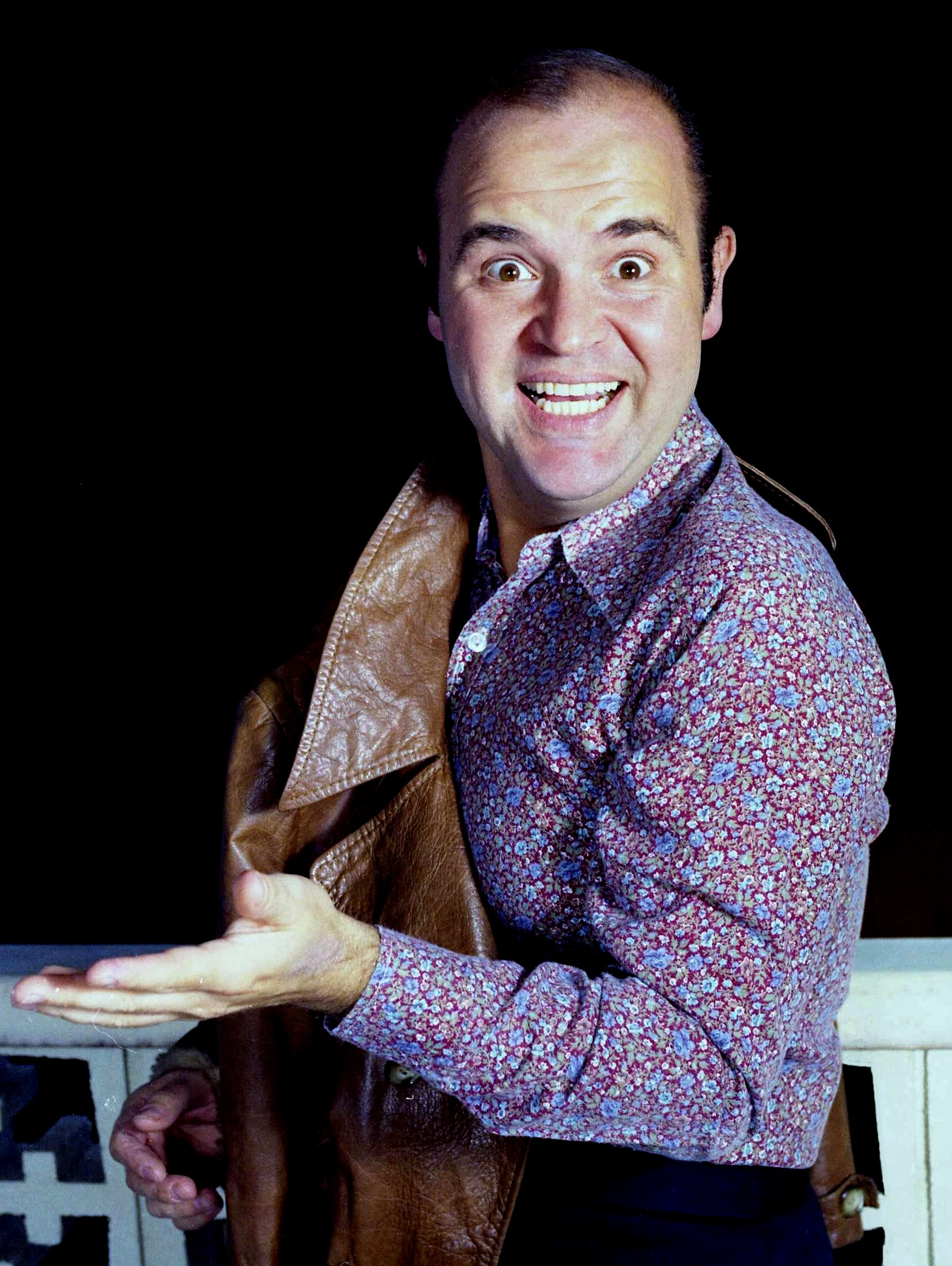 Portrait of Dom DeLuise taken by the photographer in Los Angeles in 1975